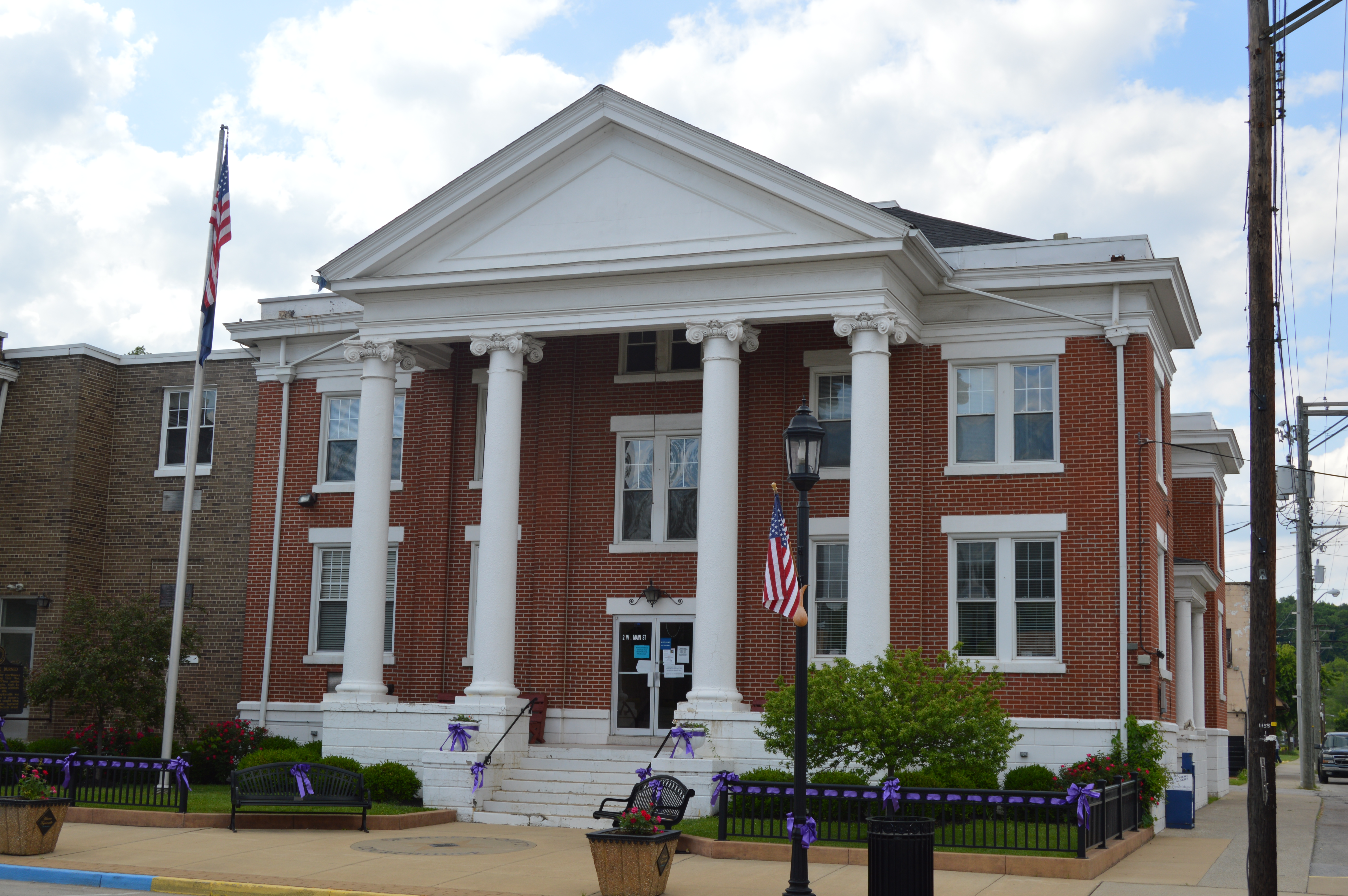 Front of the Spencer County Courthouse, located at 12 W. Main Street (Kentucky Route 44) in Taylorsville, Kentucky, United States. Built in 1915, it is part of the Taylorsville Historic District, a historic district that is listed on the National Register of Historic Places.